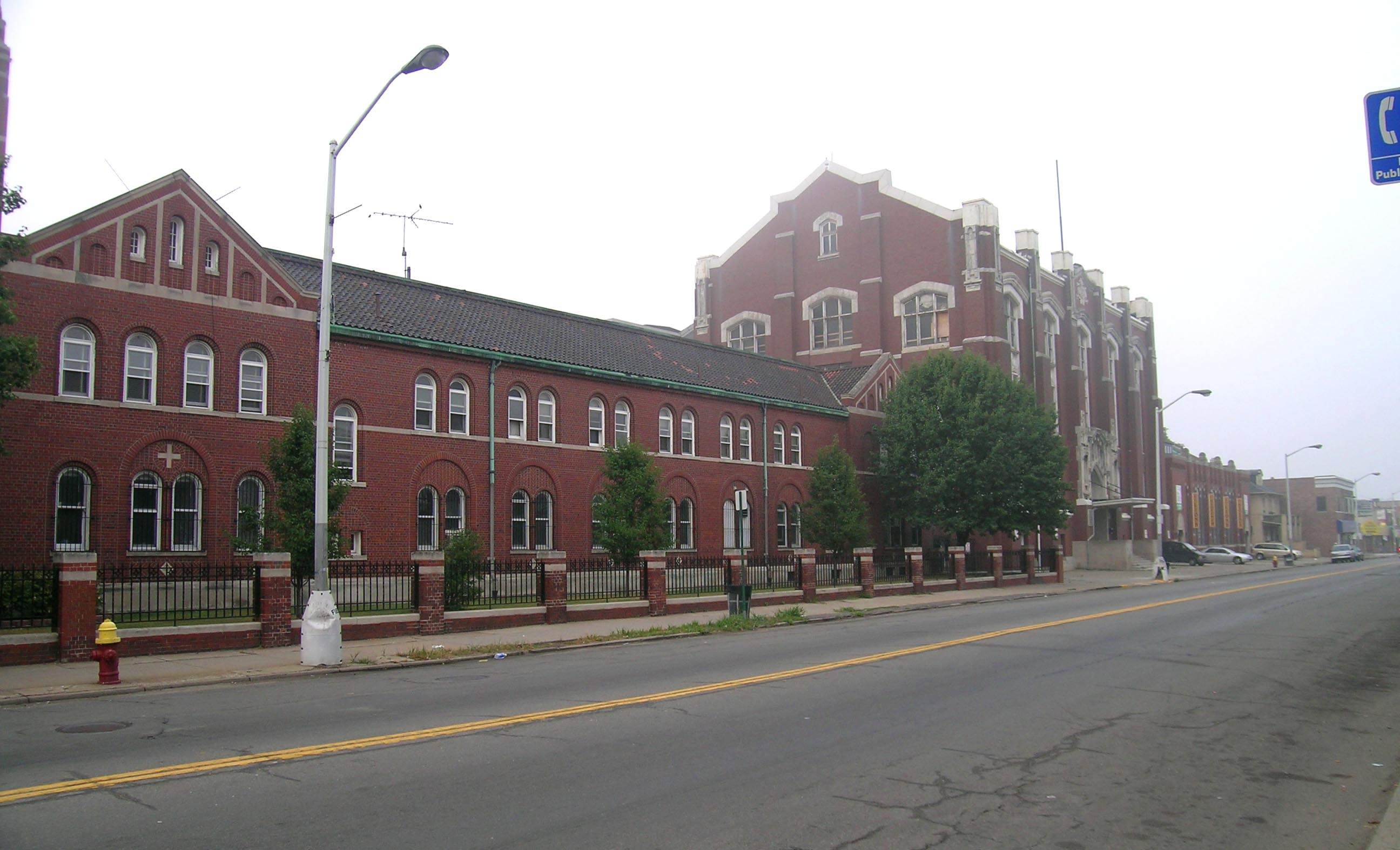 South side of Vernor at Junction, looking west. Holy Redeemer High School